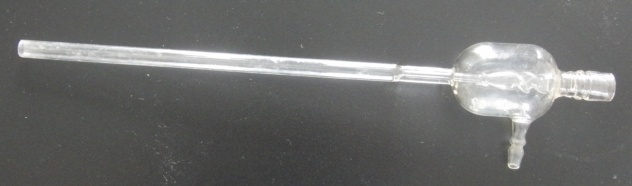 Glass aspirator